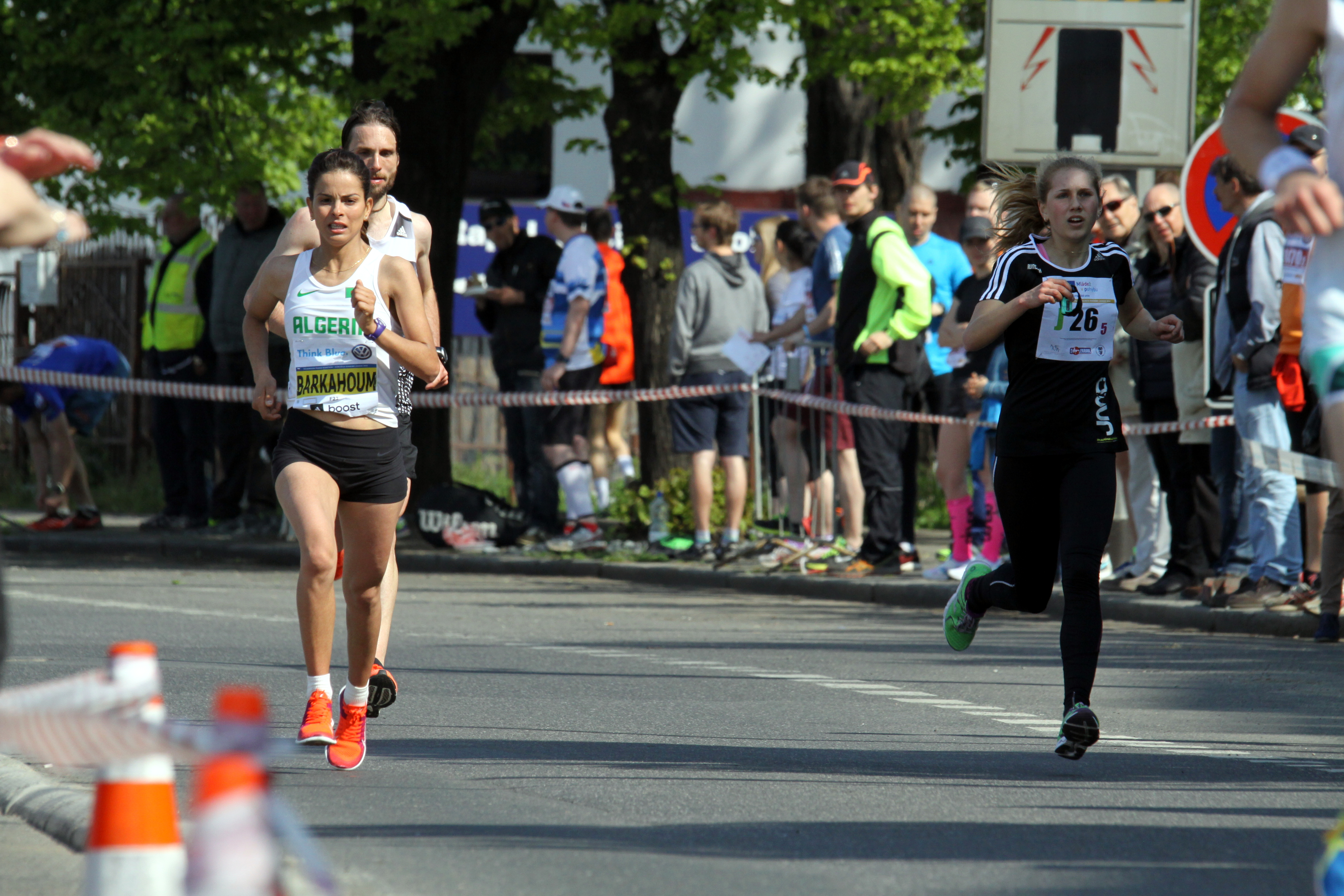 Prague International Marathon in 2015, Czech Republic